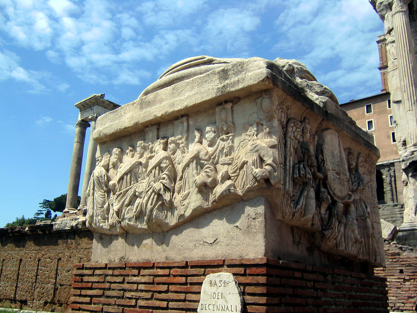 The emperor Diocletian, at the end of the third century AD, decided that the empire was too big to be ruled by one man. He divided it into two halves, each with a main ruler or Augustus and a sort of vice-president and intended successor called a Caesar. This fragile system was commemorated in an honorary column, which has disappeared, and this base, which survives. An inscription reads "Happily ten years". The system collapsed, however, after Diocletian left the scene. Rome, Forum.